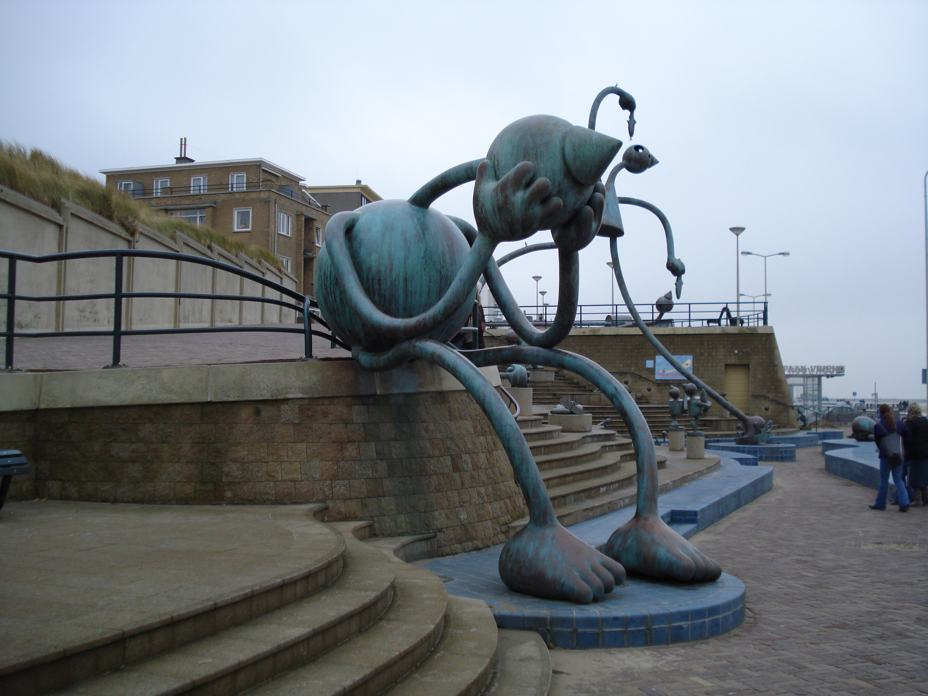 sculpture crying giant by Tom Otterness in The Hague/The Nethetlands